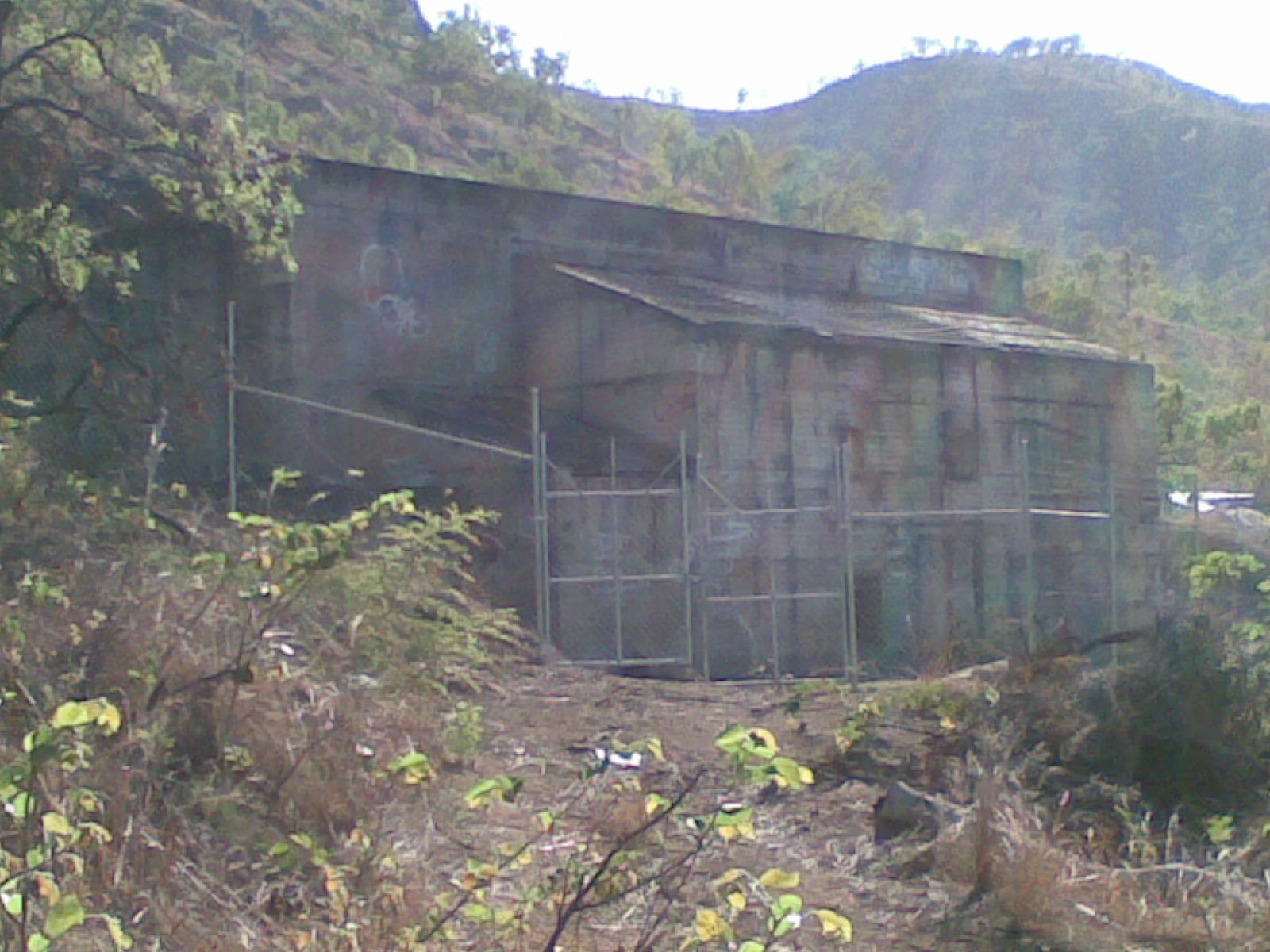 The WW2 Bunker today taken on 26th November 2009